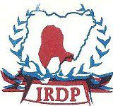 This image depicts the symbol of the Integrated Rural Development Programme.